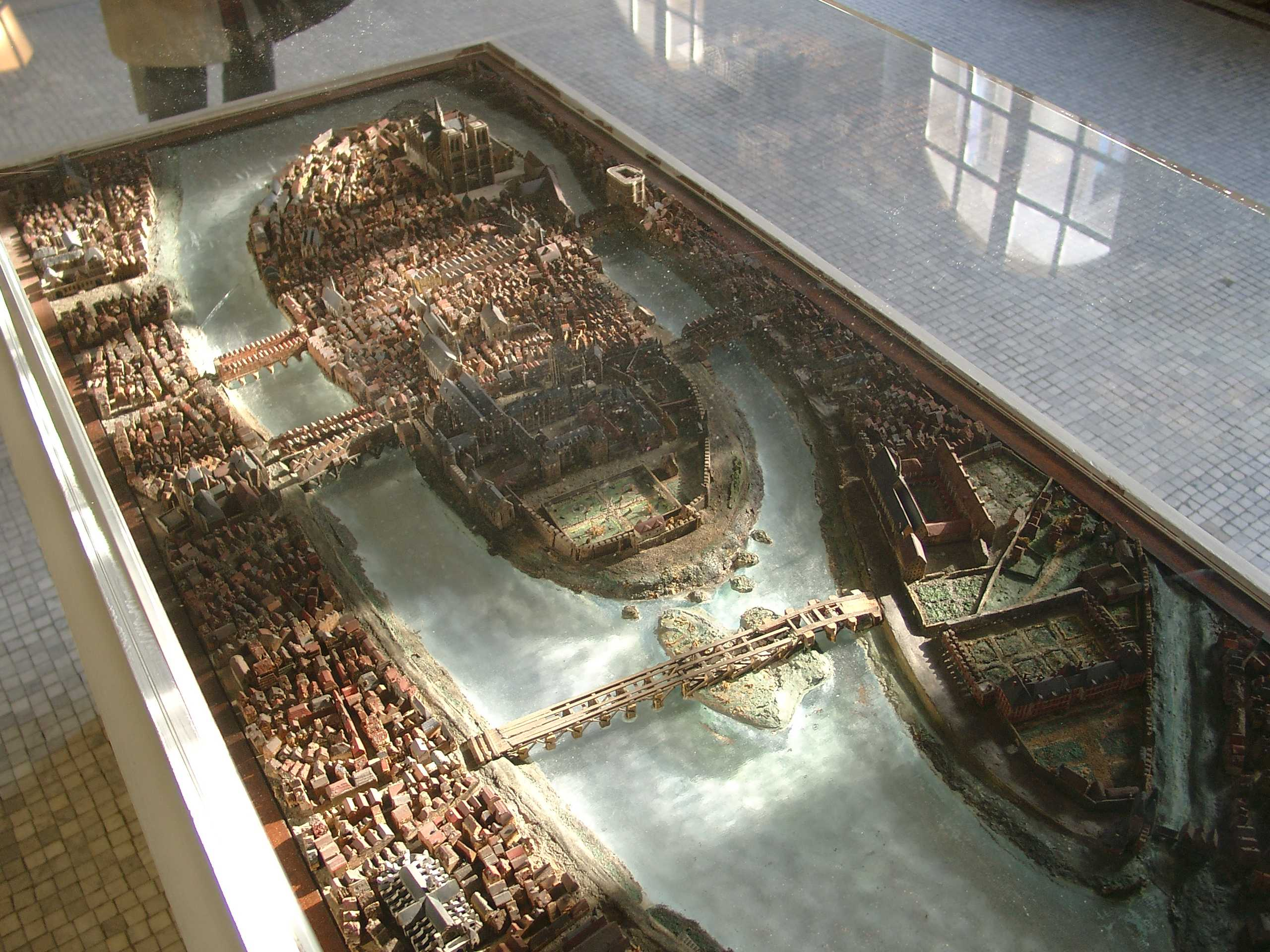 Model of medieval Paris (16.century), view from north-west; Musée Carnavalet (taking photos without flash is allowed)